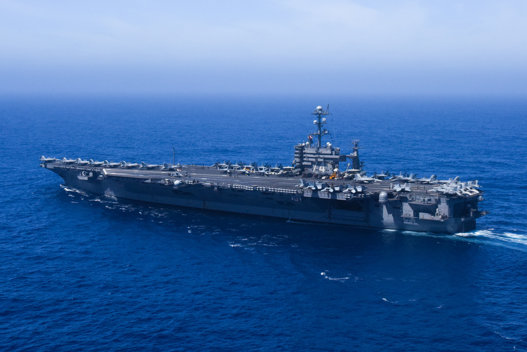 The U.S. Navy aircraft carrier USS John C. Stennis (CVN-74) underway in the Pacific Ocean off the U.S. West Coast as part of a group sail with its strike group.